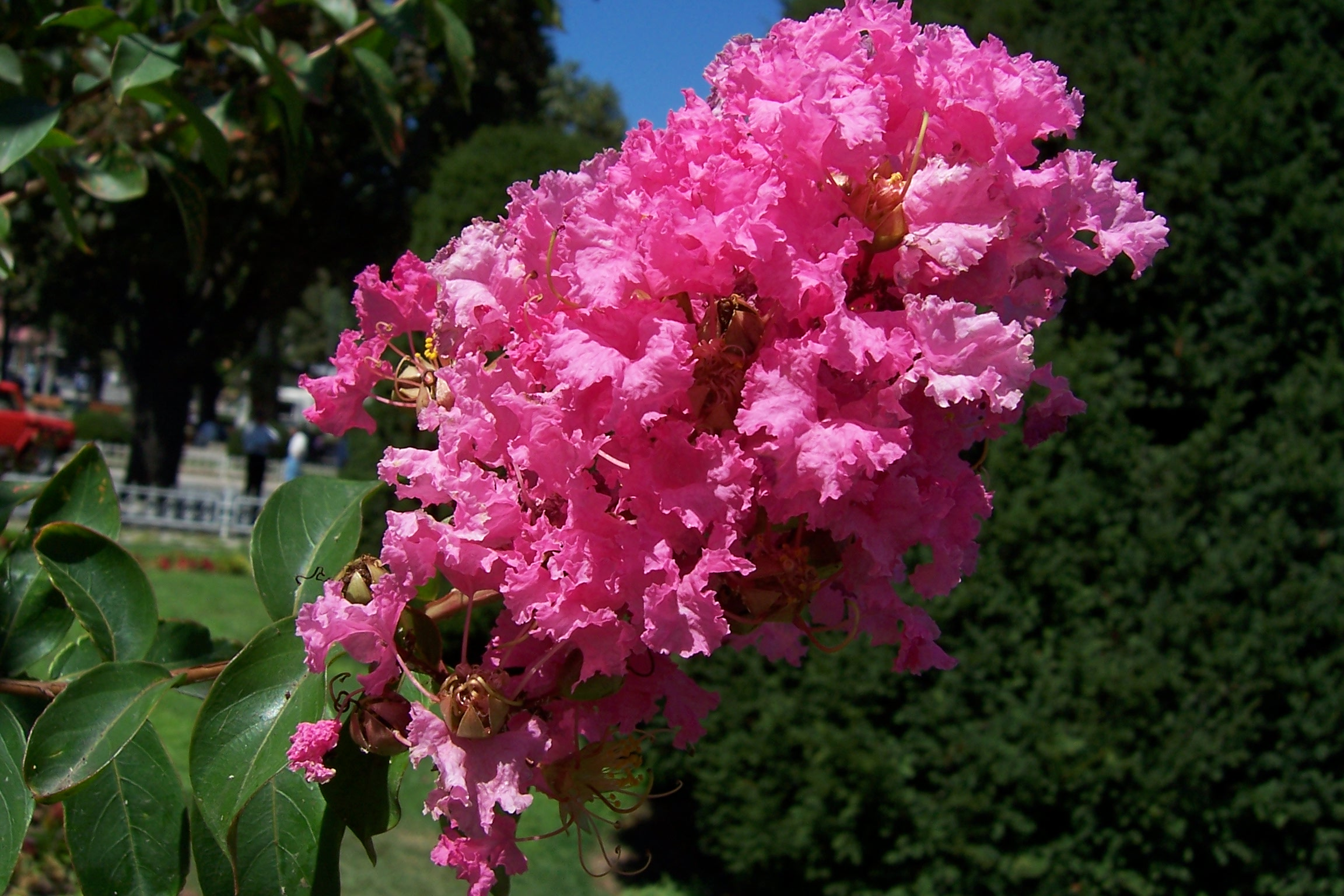 Lagerstromia indica taken in Istanbul, Turkey